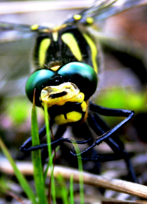 Cordulegastridae Norsk (bokmål): Kongeøyenstikkere (eller Bekkeøyenstikkere)